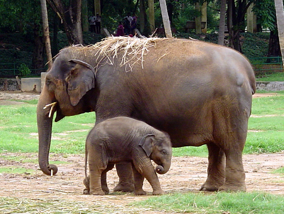 Asian Elephants at Mysore, India.